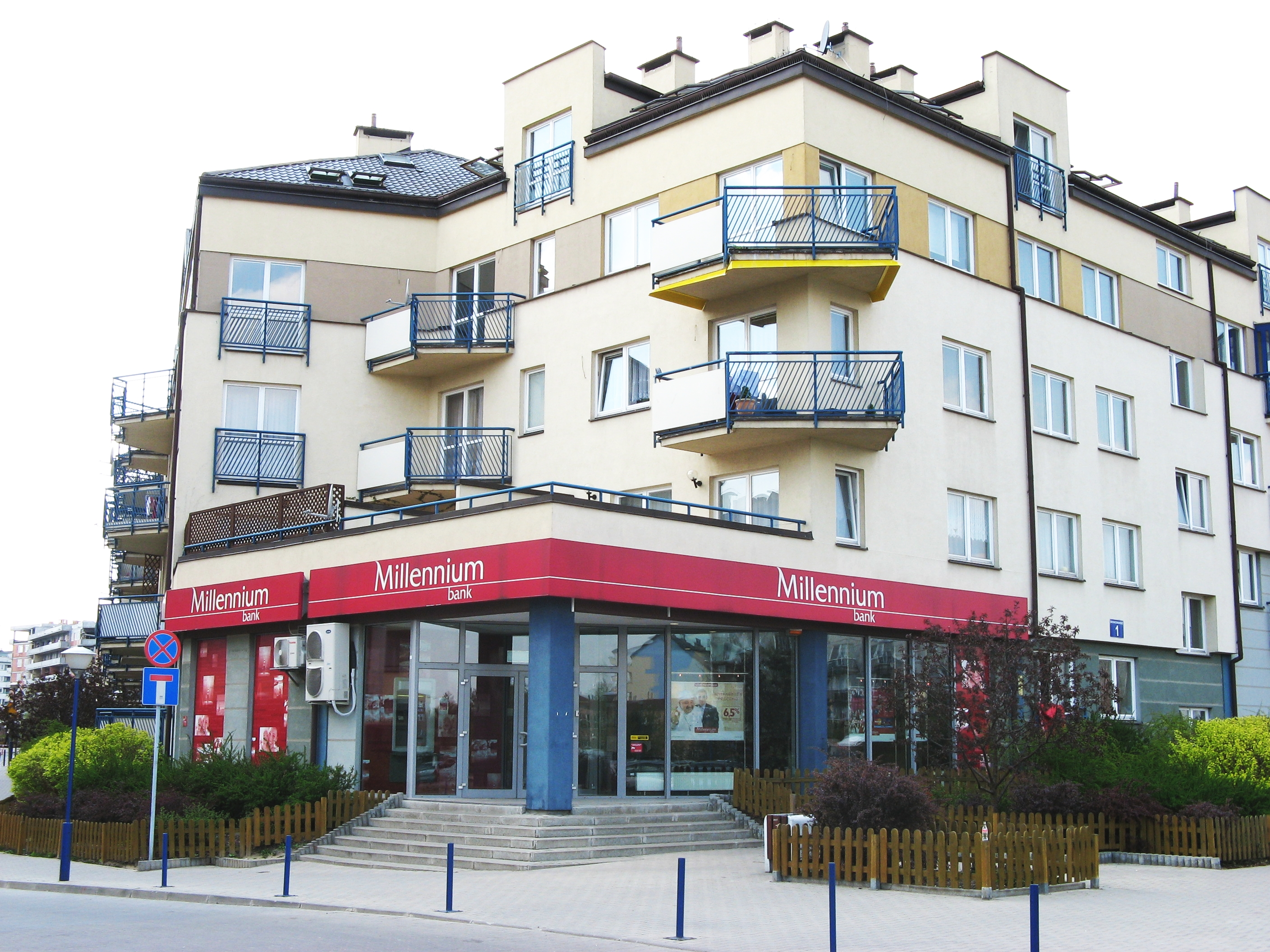 Bank Millennium branch in Warsaw, Poland